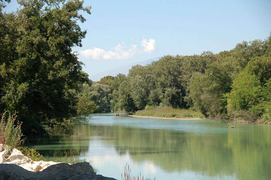 River Sangro